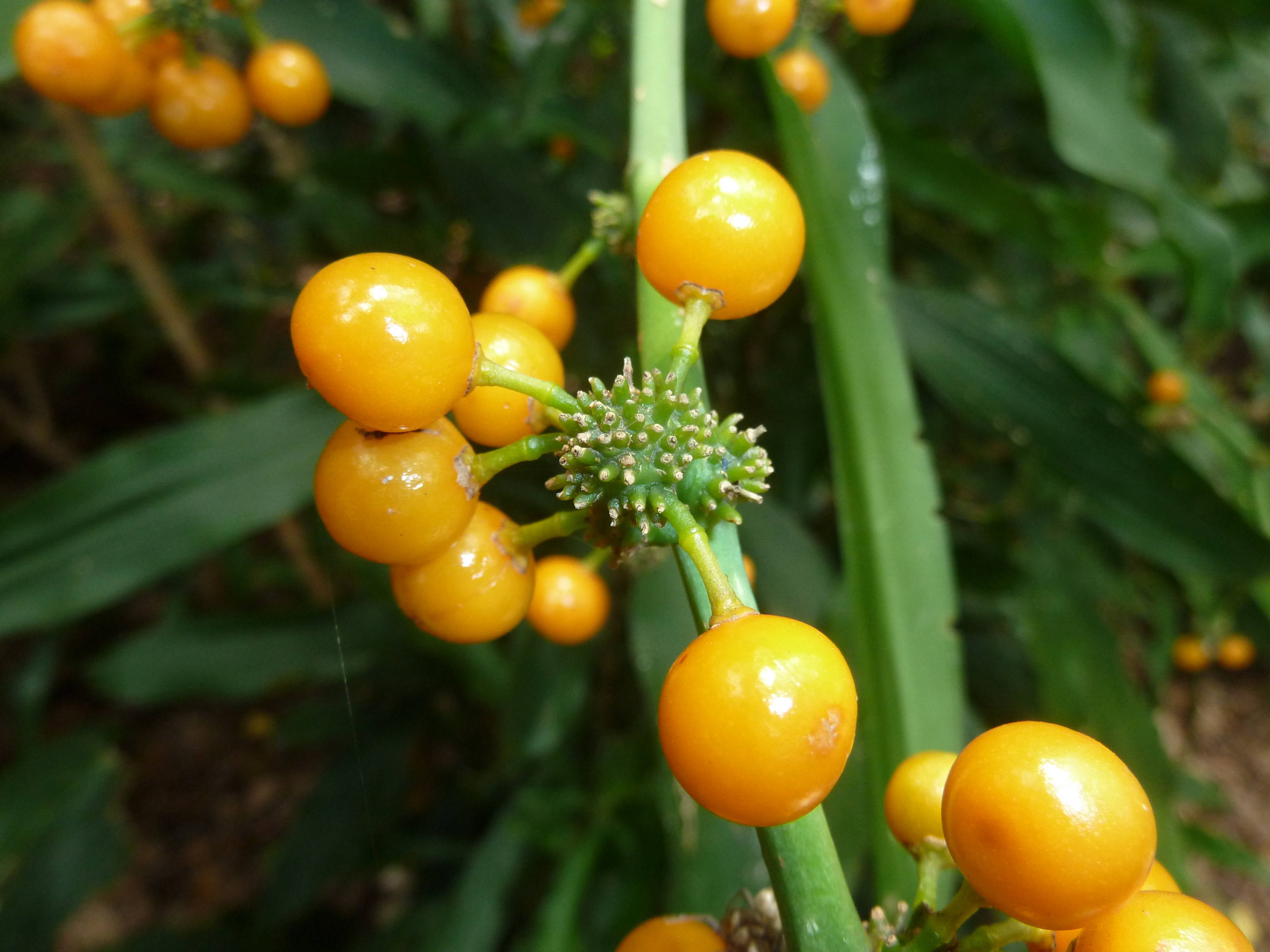 Fruit of a Forest dracaena in the Manie van der Schijff Botanical Garden at the University of Pretoria. Propagated from material obtained in Guinea, West Africa.